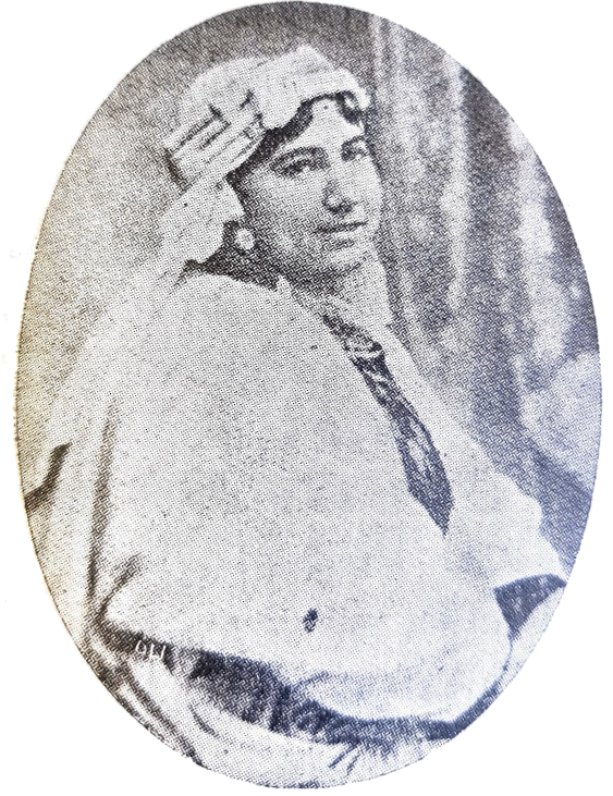 Egyptian writer Malak Hifni Nasif.